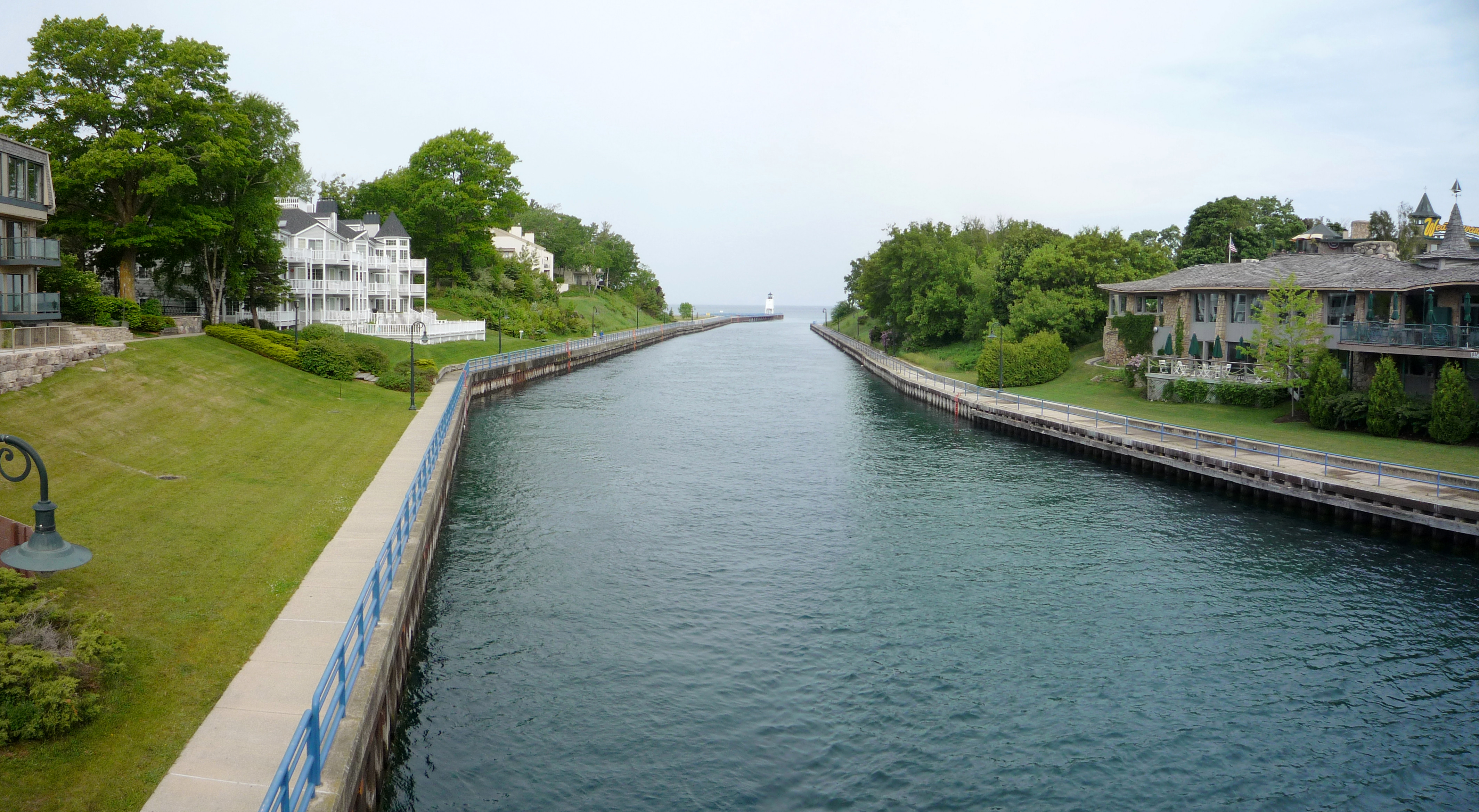 Looking down the Pine River into Lake Michigan from the main bridge in downtown Charlevoix, Michigan, USA. The Charlevoix South Pier Light Station is at the mouth of the river.